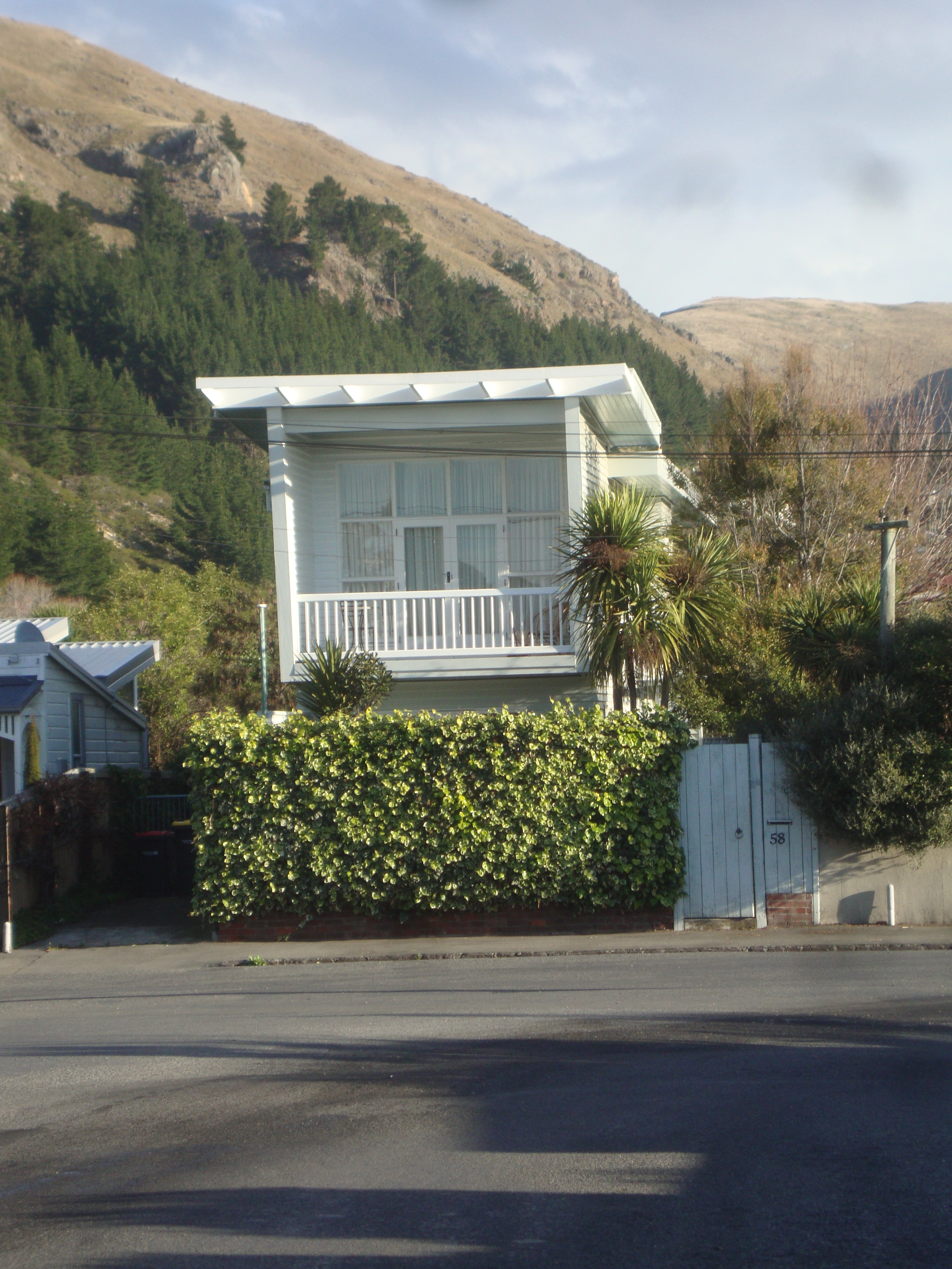 Pascoe House, Christchurch, in July 2012.